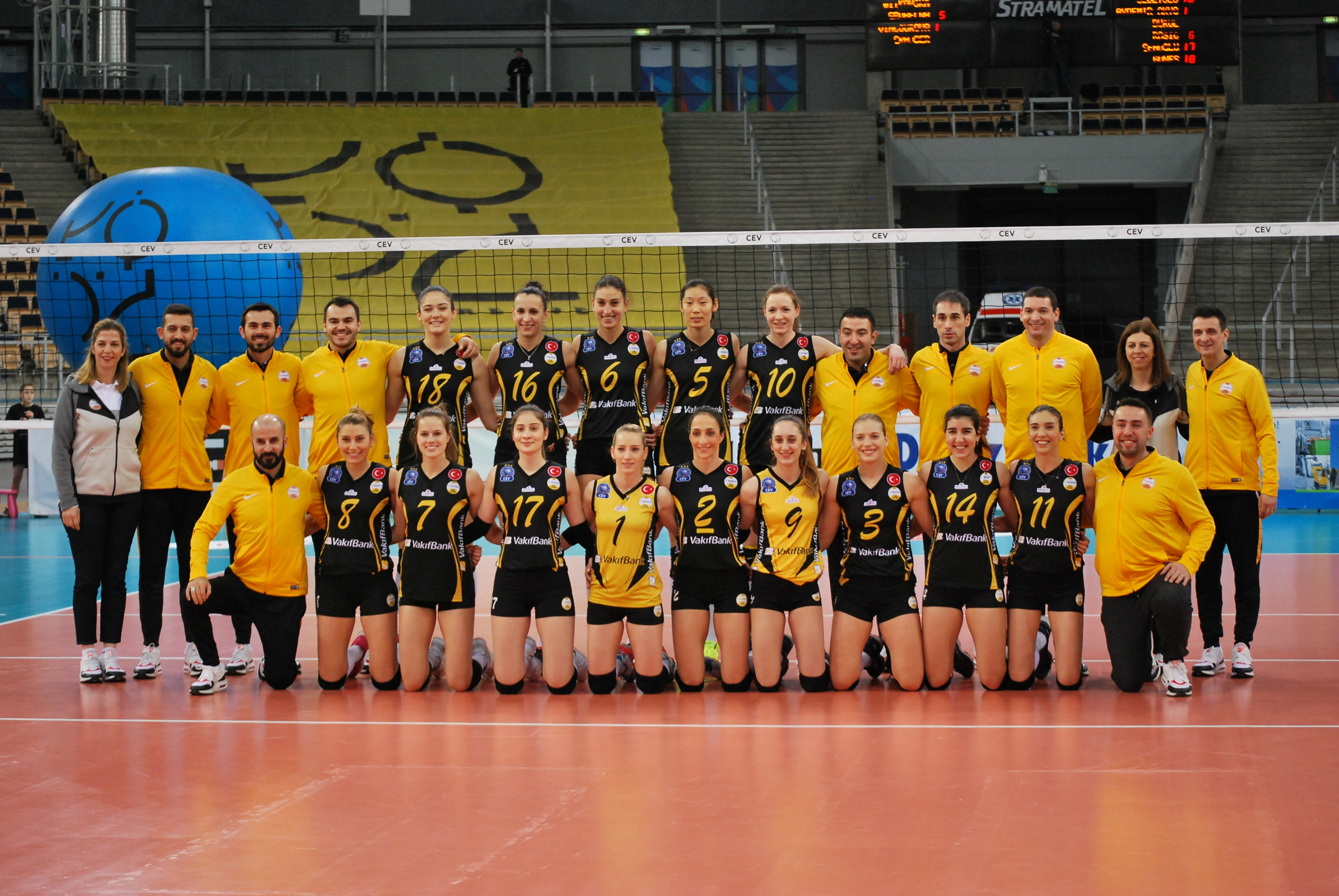 Vakifbank Istanbul 2018 February